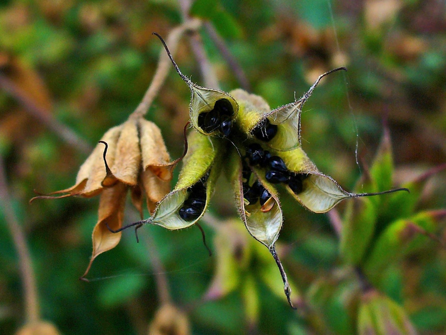 Aquilegia vulgaris, Ranunculaceae, European Columbine, Common Columbine, Granny's Nightcap, seeds. Stutensee, Germany.